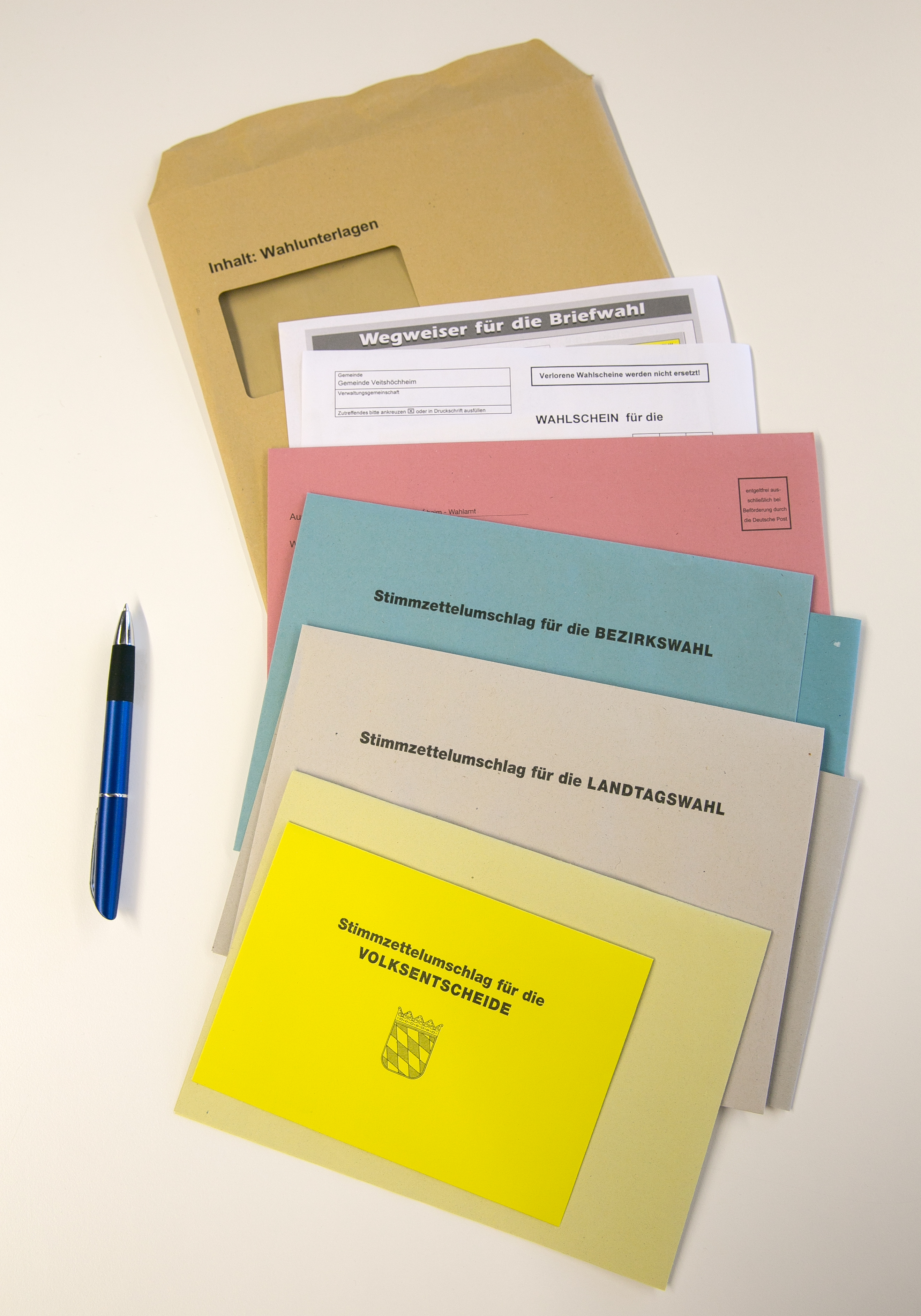 Postal ballot paper for the parliamentary and district elections (including referendums) on 15th September 2013 in Bavaria.